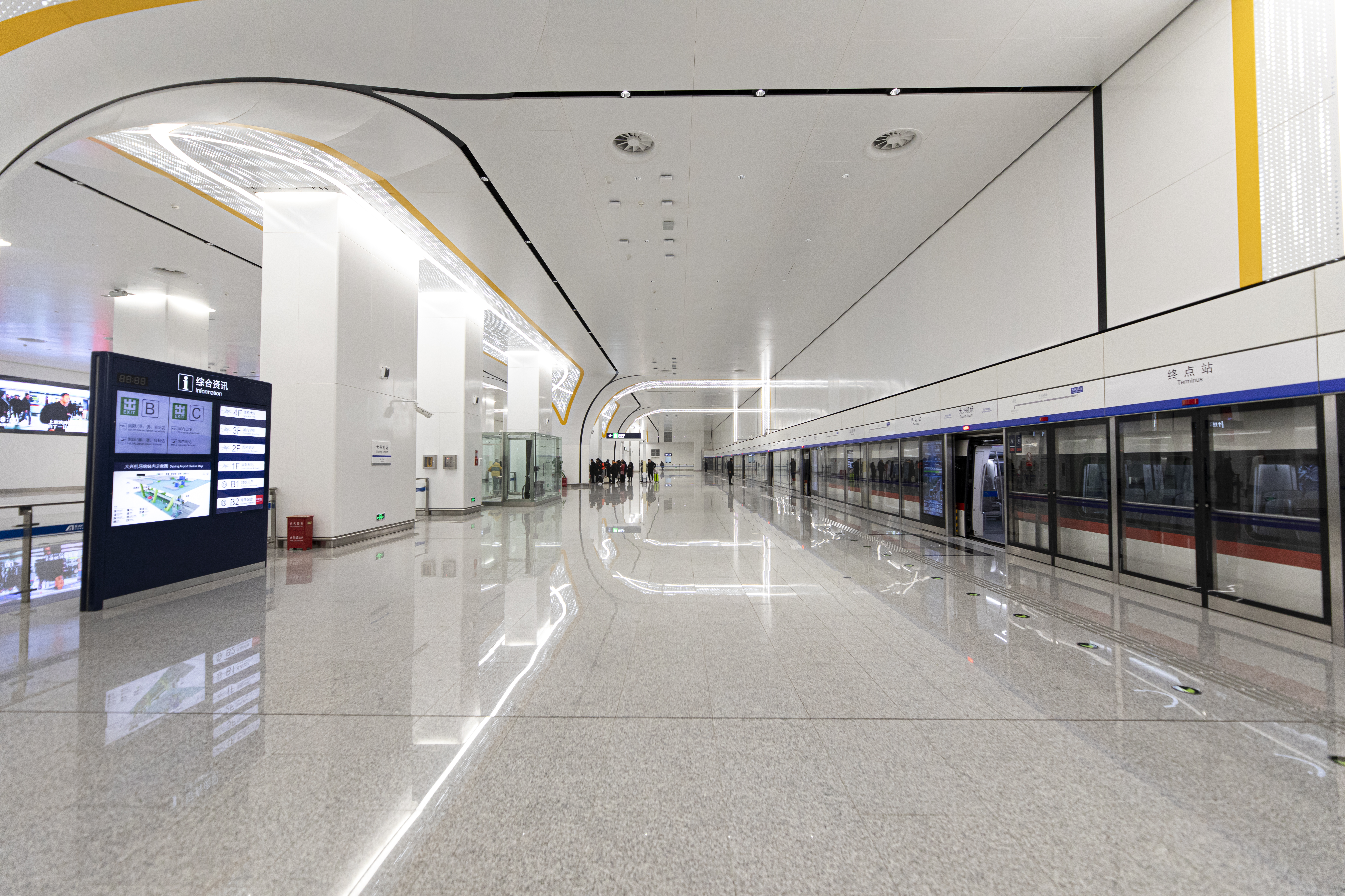 Daxing International Airport metro station platform (terminus)